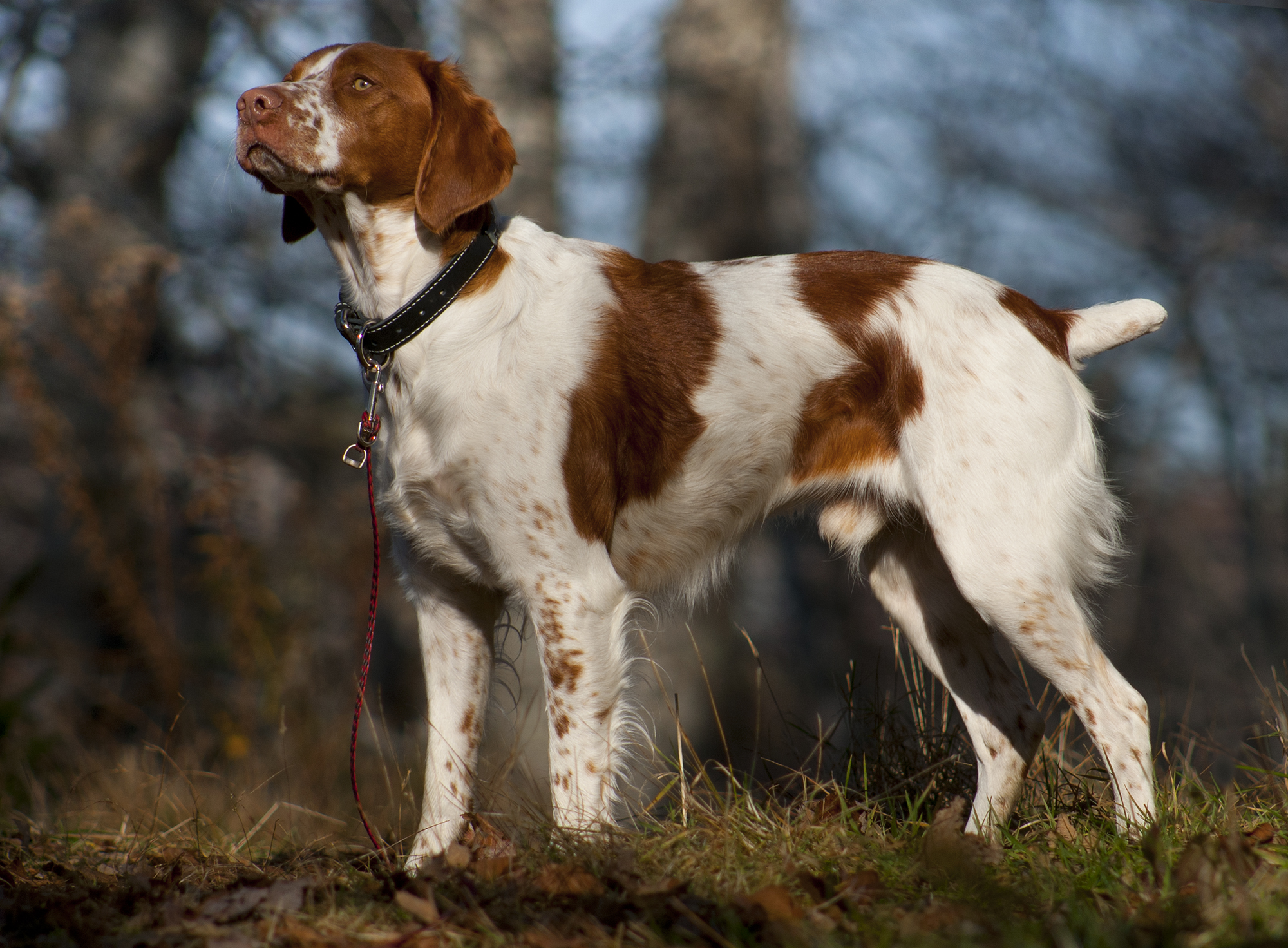 Kinwashkly That's Mr Jagger to You (by Kinwashkly Jumpin Jack Flash, out of Kinwashkly Ruby Tuesday), an American-bred Brittany Spaniel.